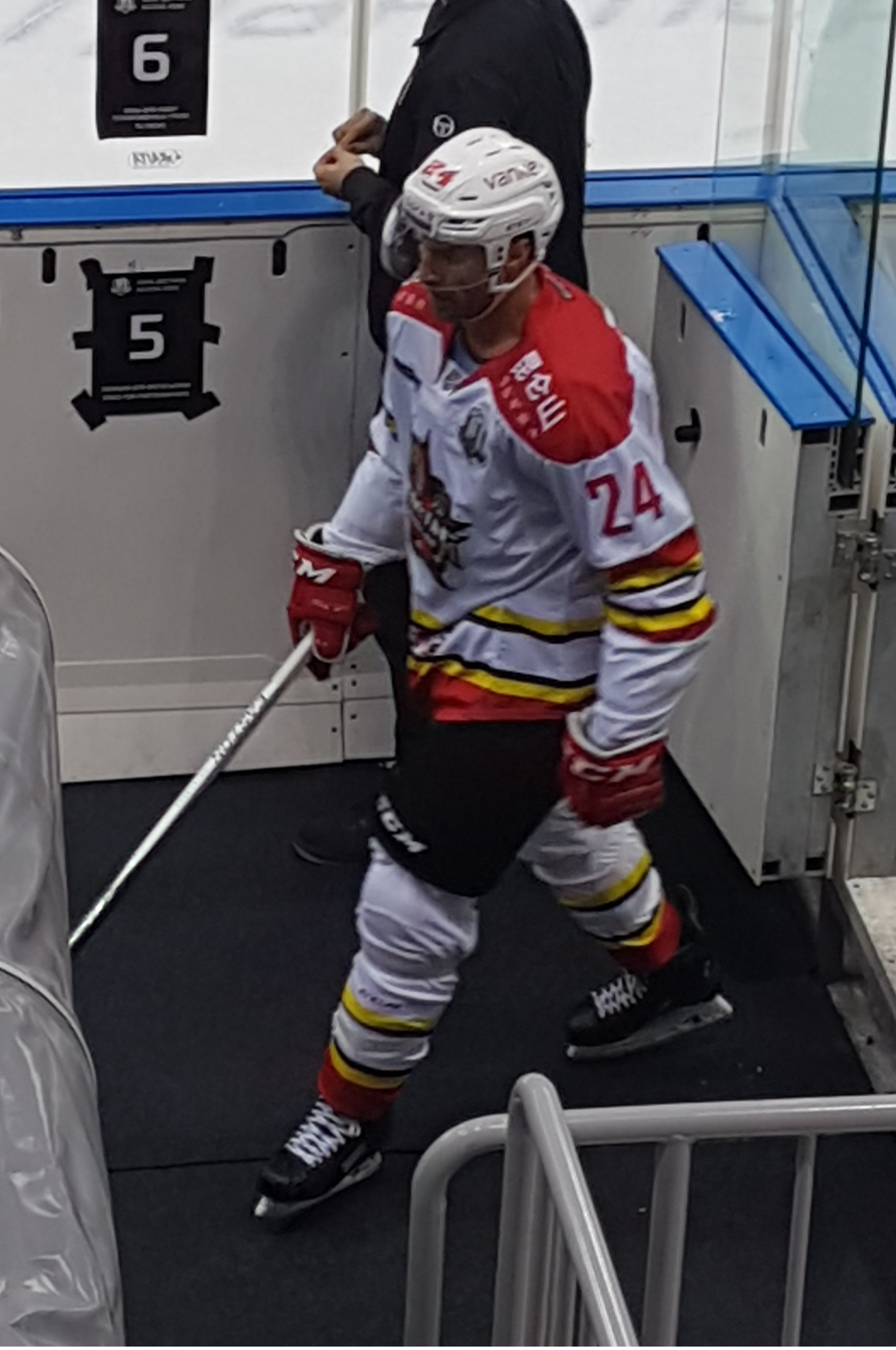 Kyle Chipchura prior to a game with Kunlun Red Star on December 29, 2017